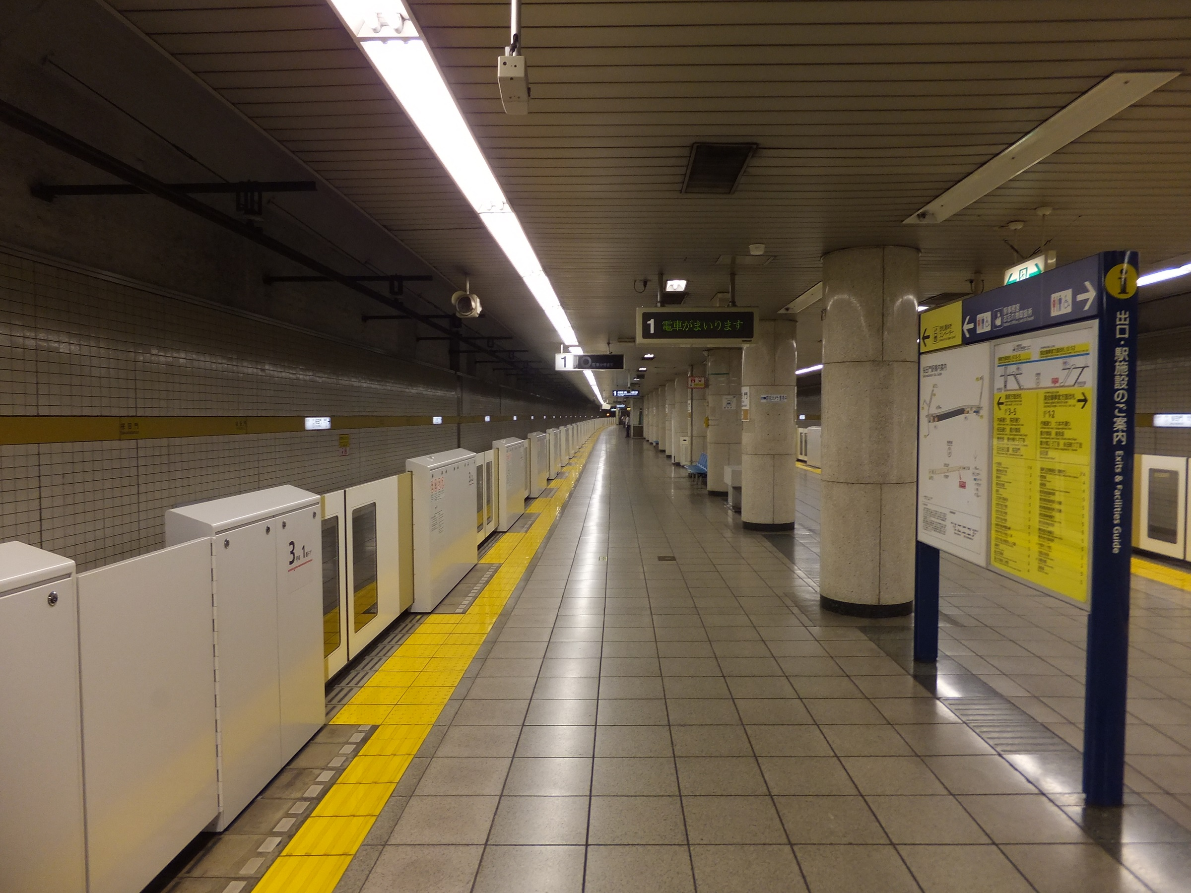 The platforms of Sakuradamon Station on the Tokyo Metro Yurakucho Line